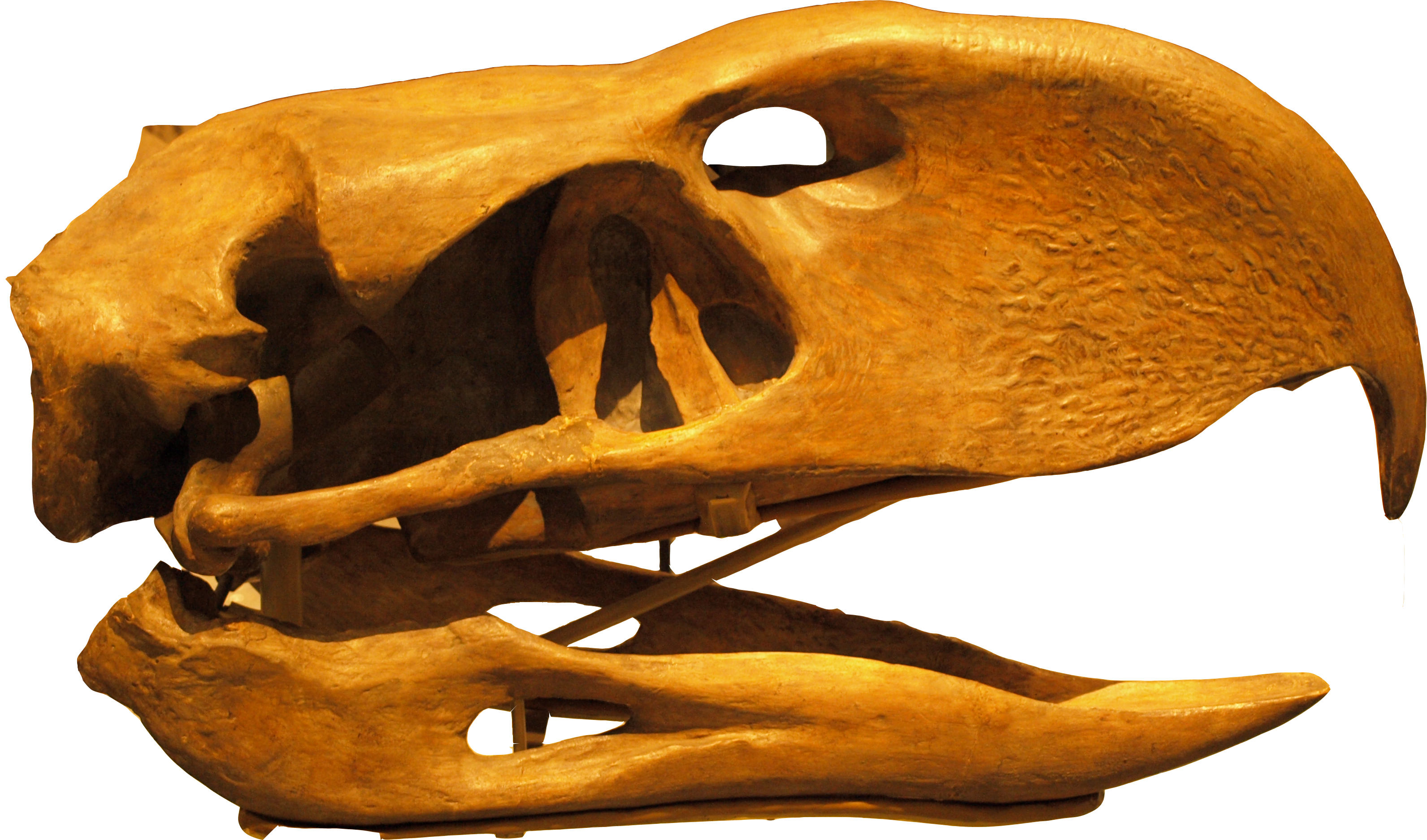 skull of the terror bird Phorusrhacos longissimus on display at the Royal Ontario Museum, Toronto. Background knocked out from image.